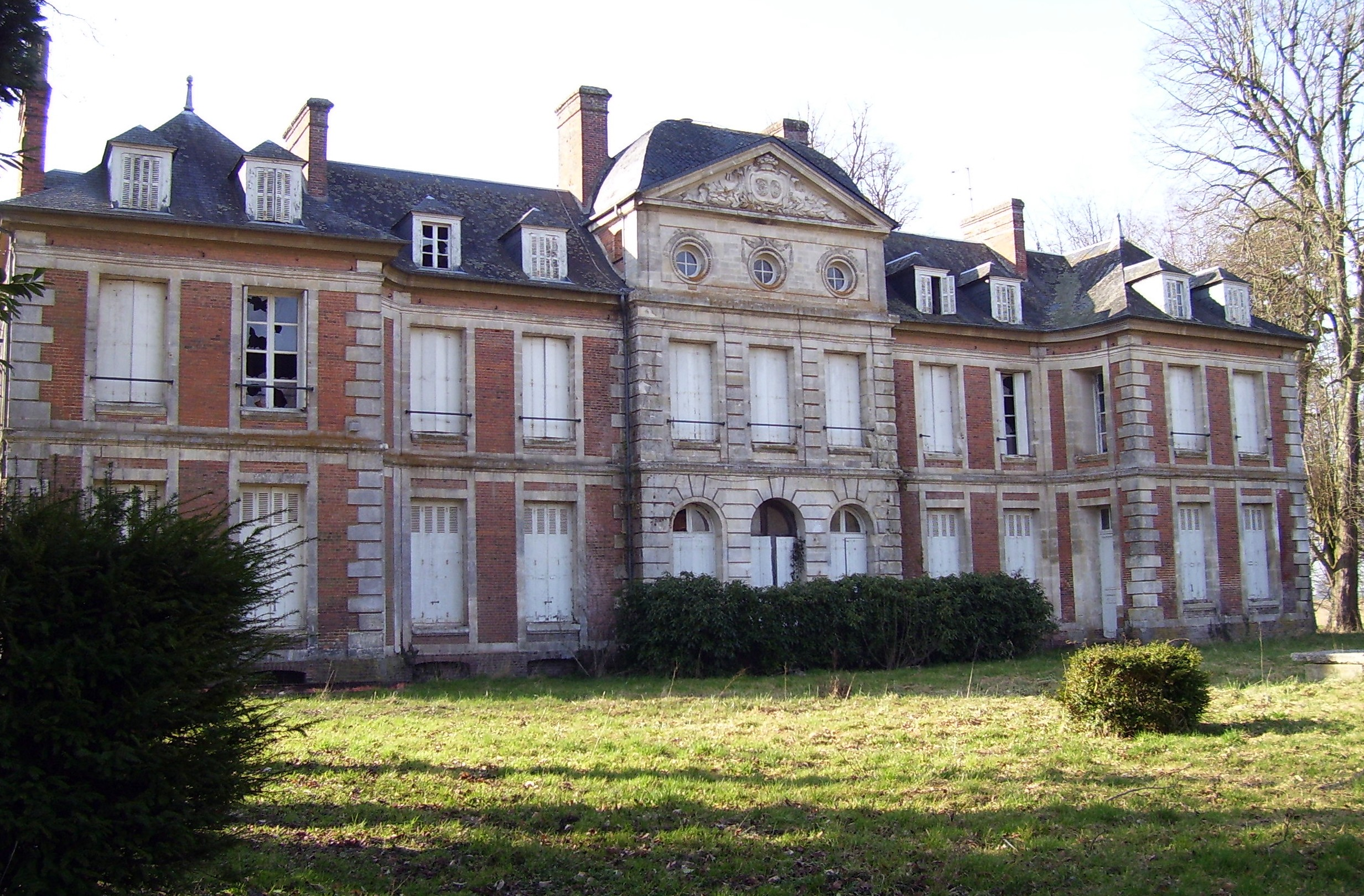 Front of the castle in Giverville in the french departement Eure in Upper Normandy.